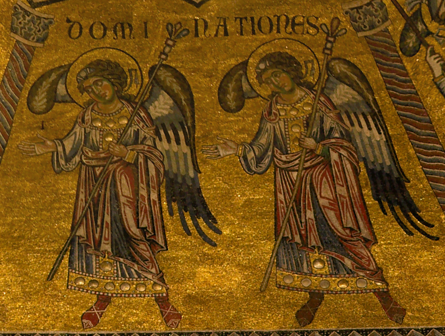 The mosaic ceiling of the Baptistery San Giovanni in Florece in total view (Stitched from 20 images, exif from one image)